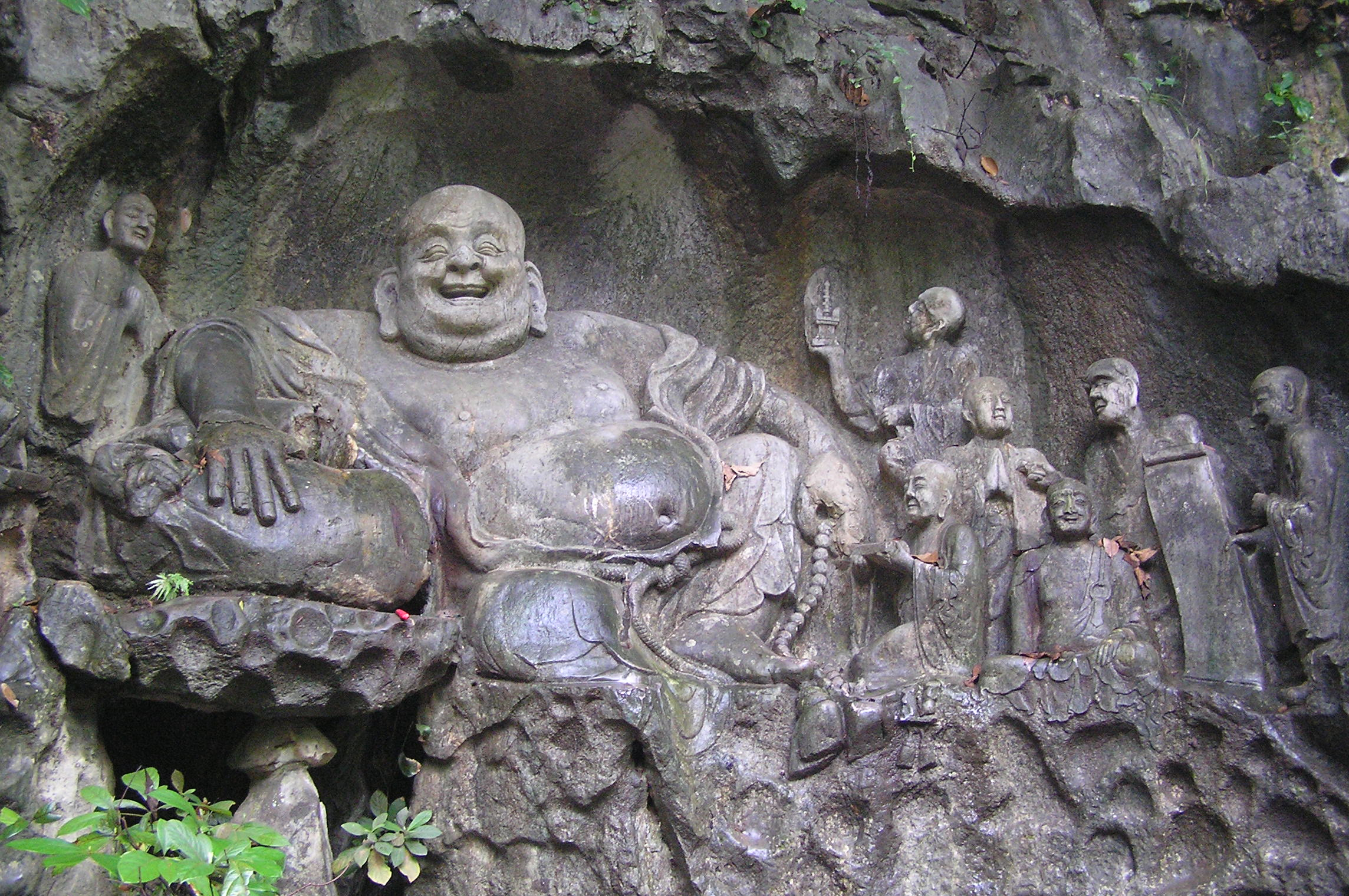 Carving of Maitreya (future Buddha) and disciples in Feilai Feng (The Peak that Flew from Afar) Caves (Hangzhou, China).